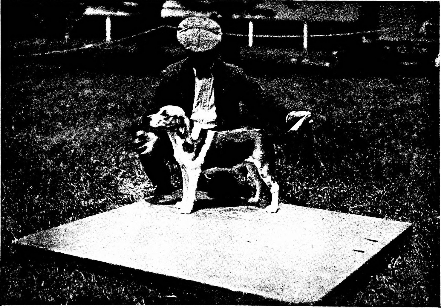 Title: The dog book : a popular history of the dog, with practical information as to care and management of house, kennel, and exhibition dogs, and descriptions of all the important breeds Year: 1909 (1900s) Authors: Watson, James, 1845- Subjects: Dogs Publisher: New York : Doubleday, Page & Co. Text Appearing Before Image: TIMID AND AFRAID TO SHOW HERSELF MR. \. H. SAXKV TRIES HIS HANI) A I\ U SHE DUES BETTER LOOKING AT HER OWN HANDLER, MR. JOE LEWIS Text Appearing After Image: 'doesn't LOOK LIKE THE SAME DOG" SHOWING A BEAGLE